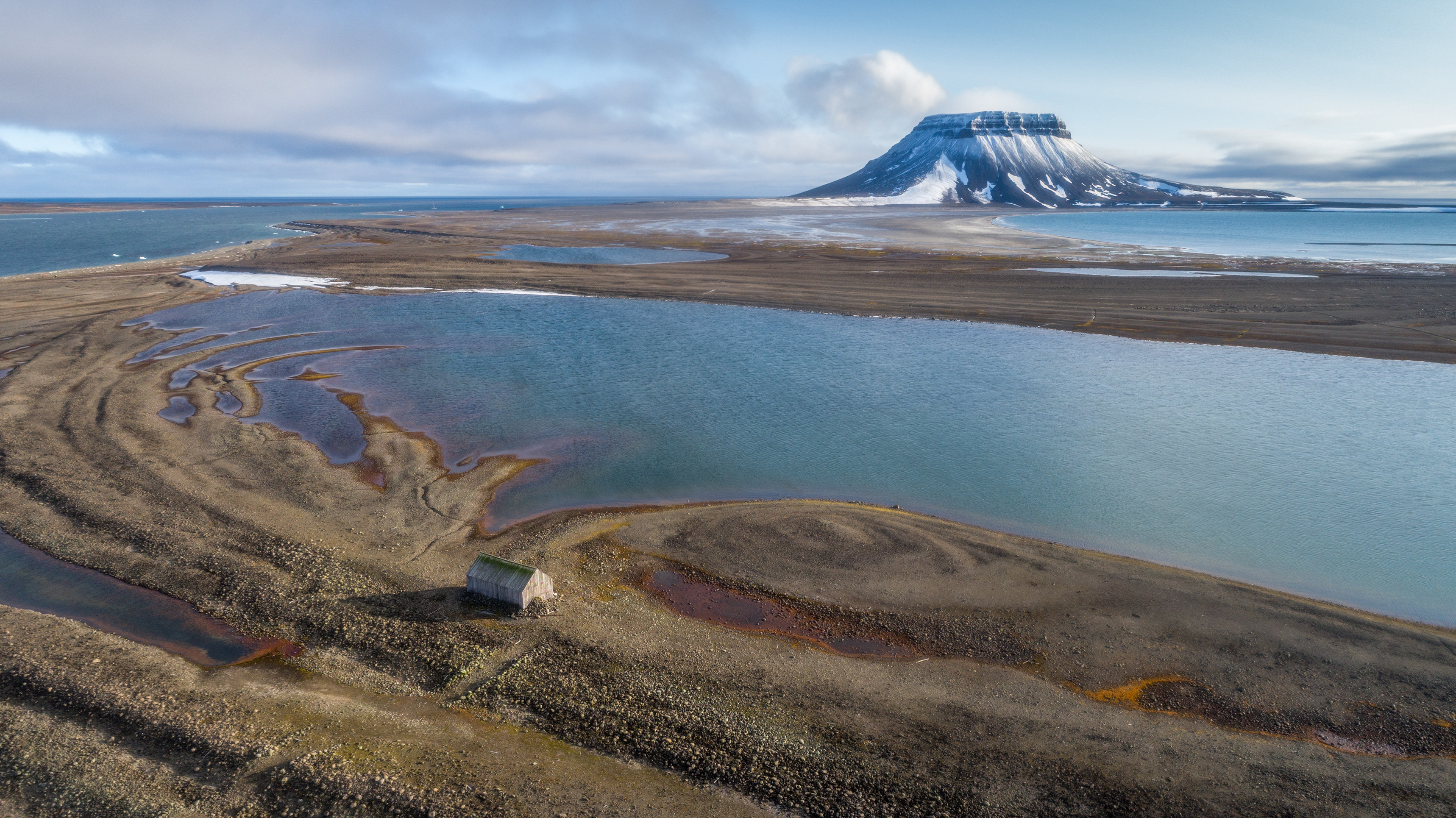 Bell Island of Franz Josef Land and Eira Lodge of Benjamin Leigh Smith expedition, Russian Arctic National Park. The picture was taken as part of the expedition In the footsteps of two captains by Maritime Heritage Associations